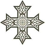 "Eritrean Orthodox Cross"